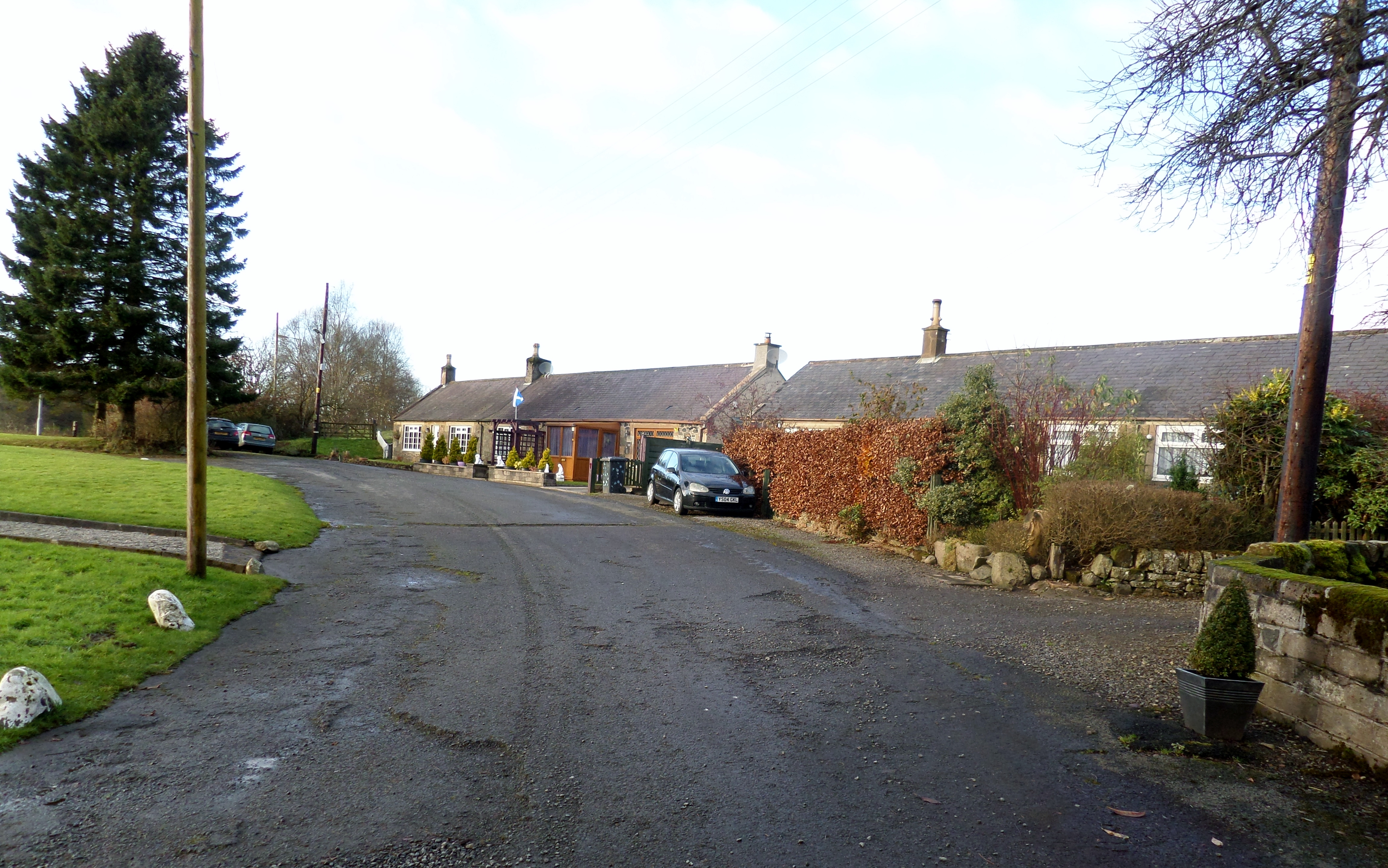 Mennock Old Smithy and other cottages, Mennock, Nithsdale, Scotland